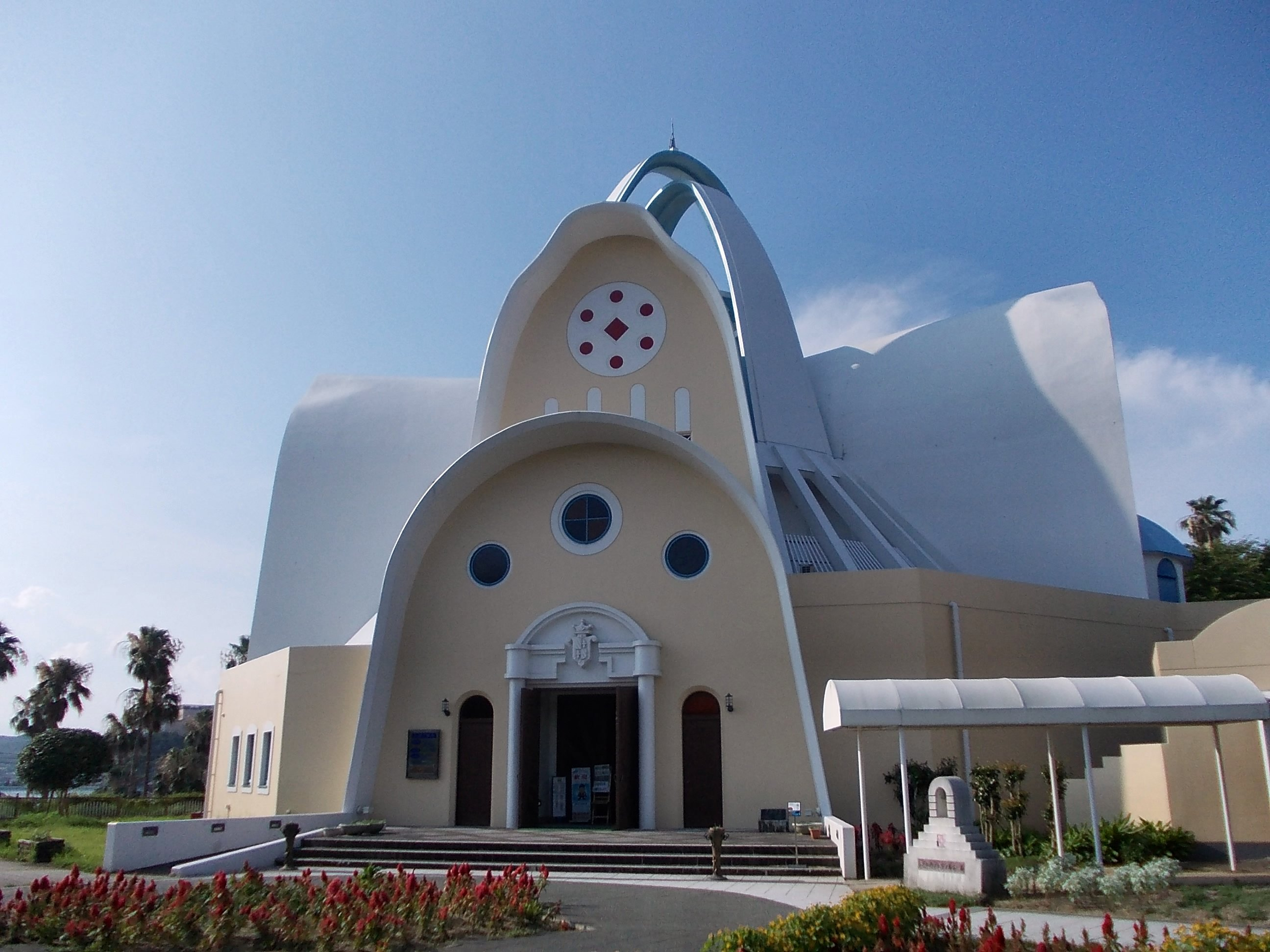 Amakusa Shiro Memorial Hall, Kami-Amakusa, Kumamoto, Japan